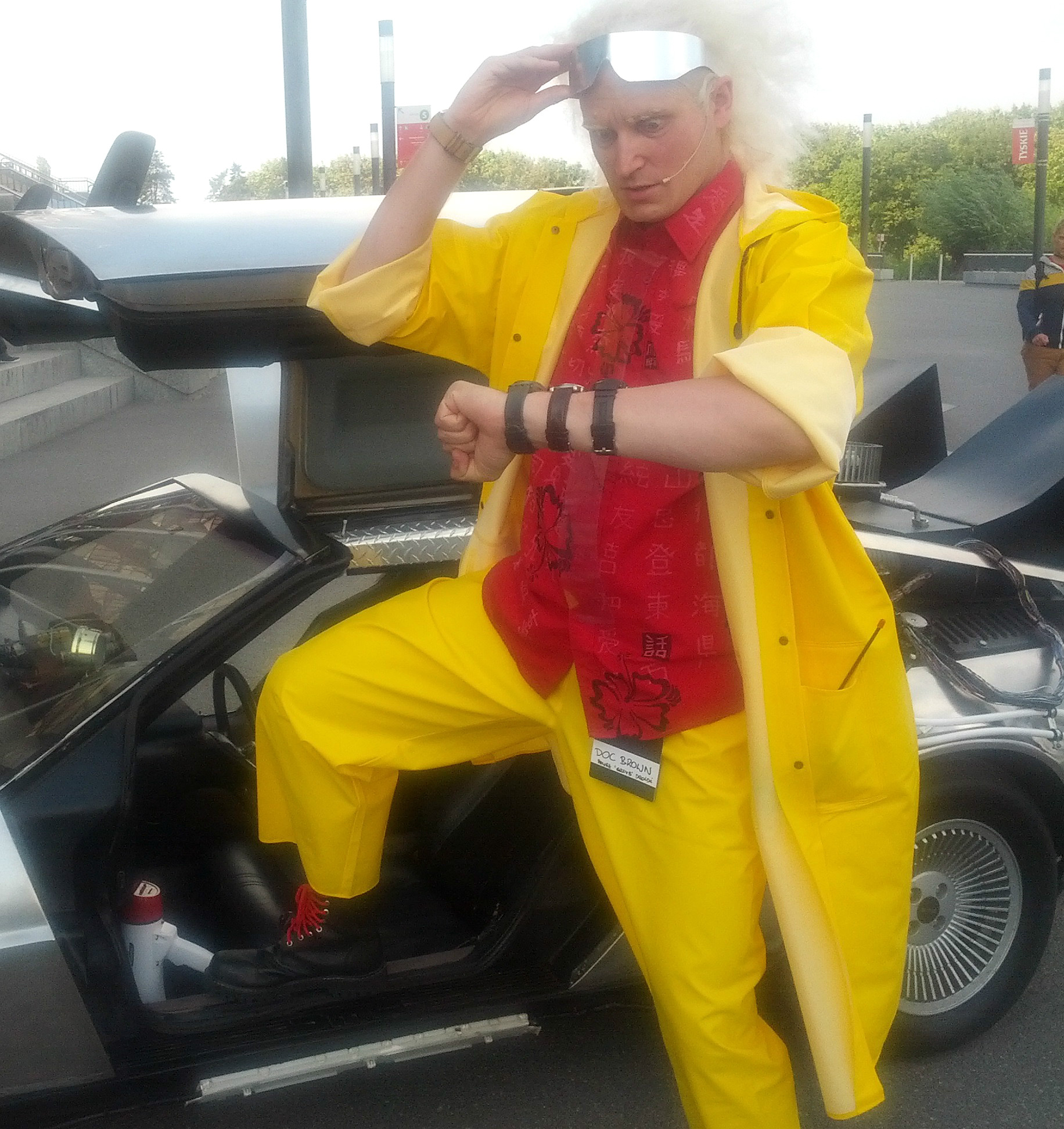 Doctrot Emmett Brown, Back to the Future, Cosplay